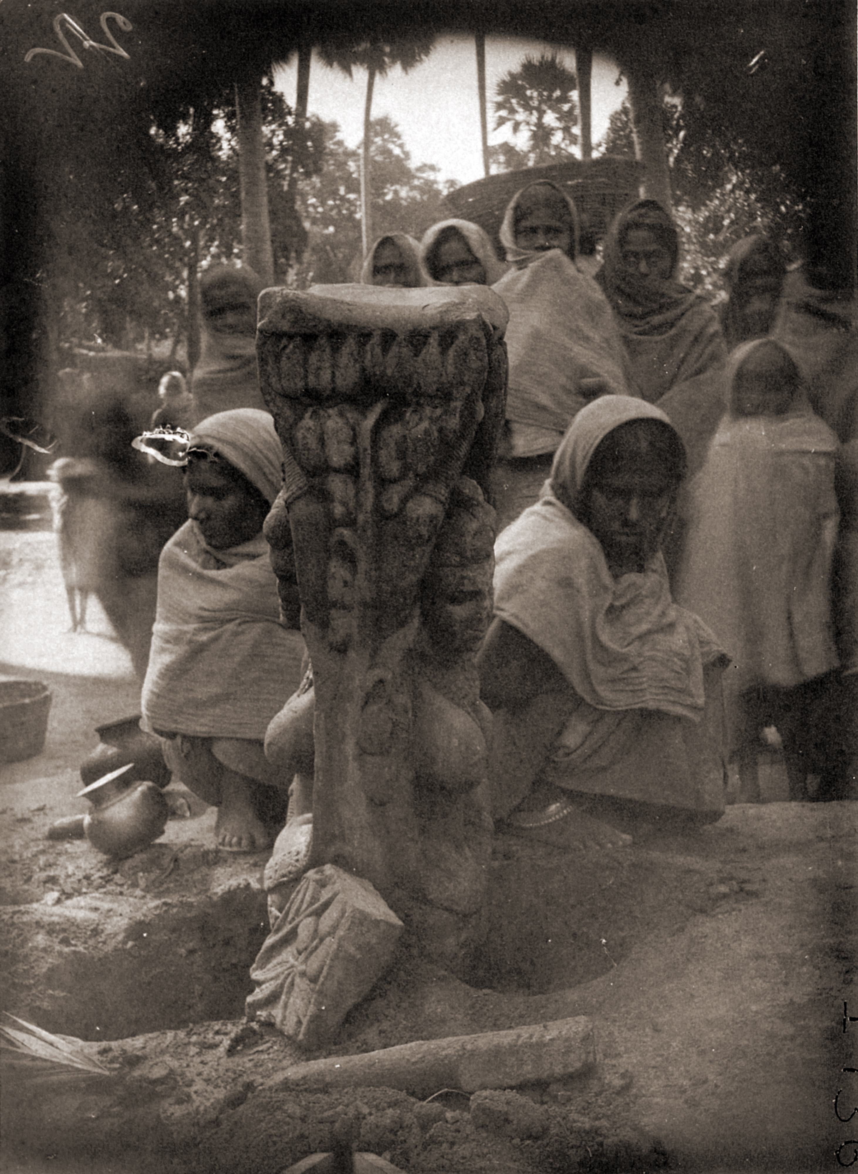 Statue of Matrikas found near Agam Kuan built by Ashoka, Patna, 1895. A. Cunningham wrote (after his 1879-80 tour), 'When I saw the two statues in the New Indian Museum at Calcutta, I then remembered that a broken statue of a similar kind was still standing at Agam Kua, just outside the city of Patna, adorned with a new head and a pair of roughly marked breasts, so as to do duty for the great goddess Mata-Mai...The Agam Kua is a very large and very old brick well...The broken figure is said to have been found in this well, and it seems probable therefore that the two statues were also found either at or near the same place.""